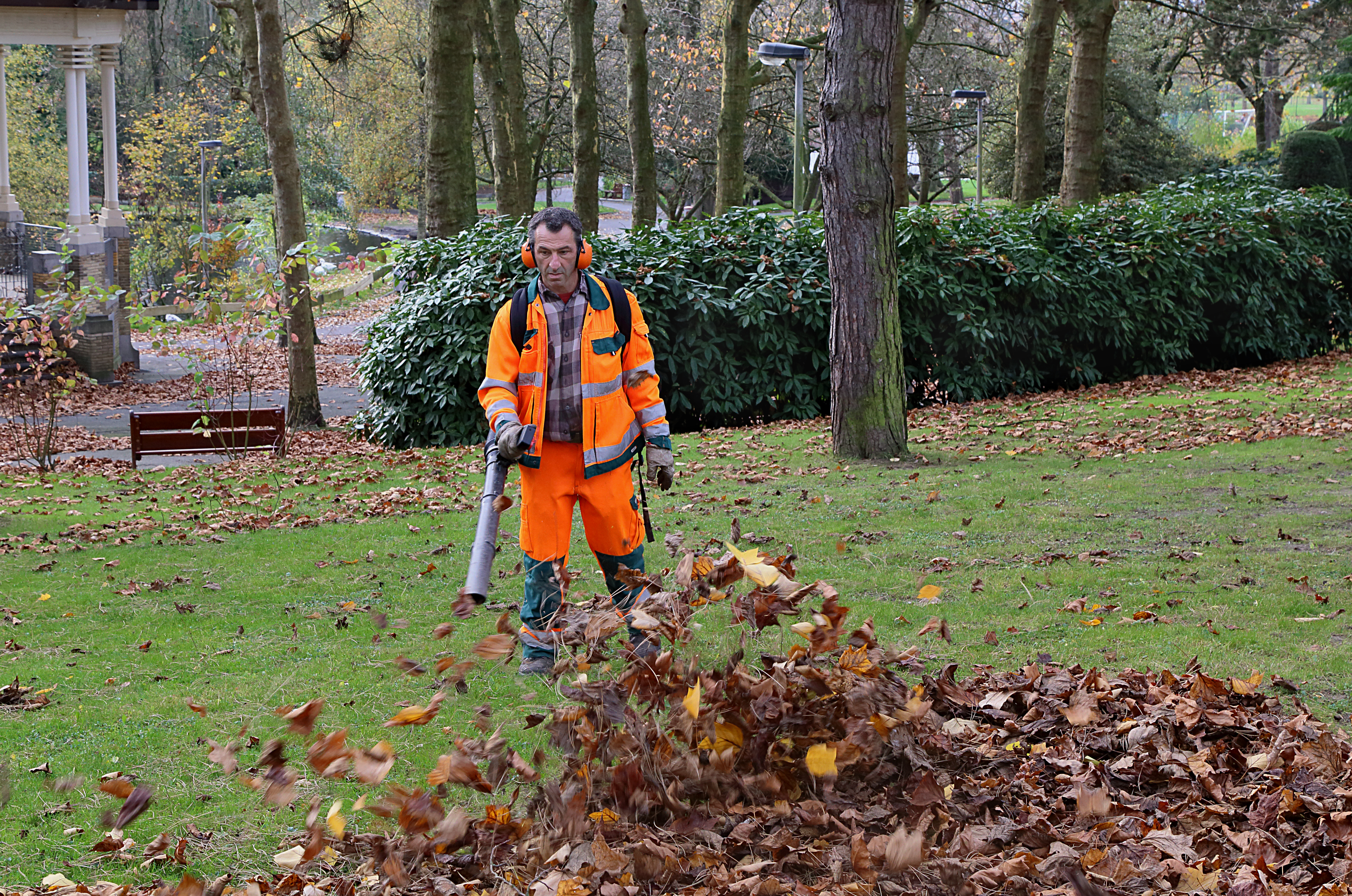 Gardener removing autumn leaves from the lawns in the municipal park of Mouscron, Belgium .